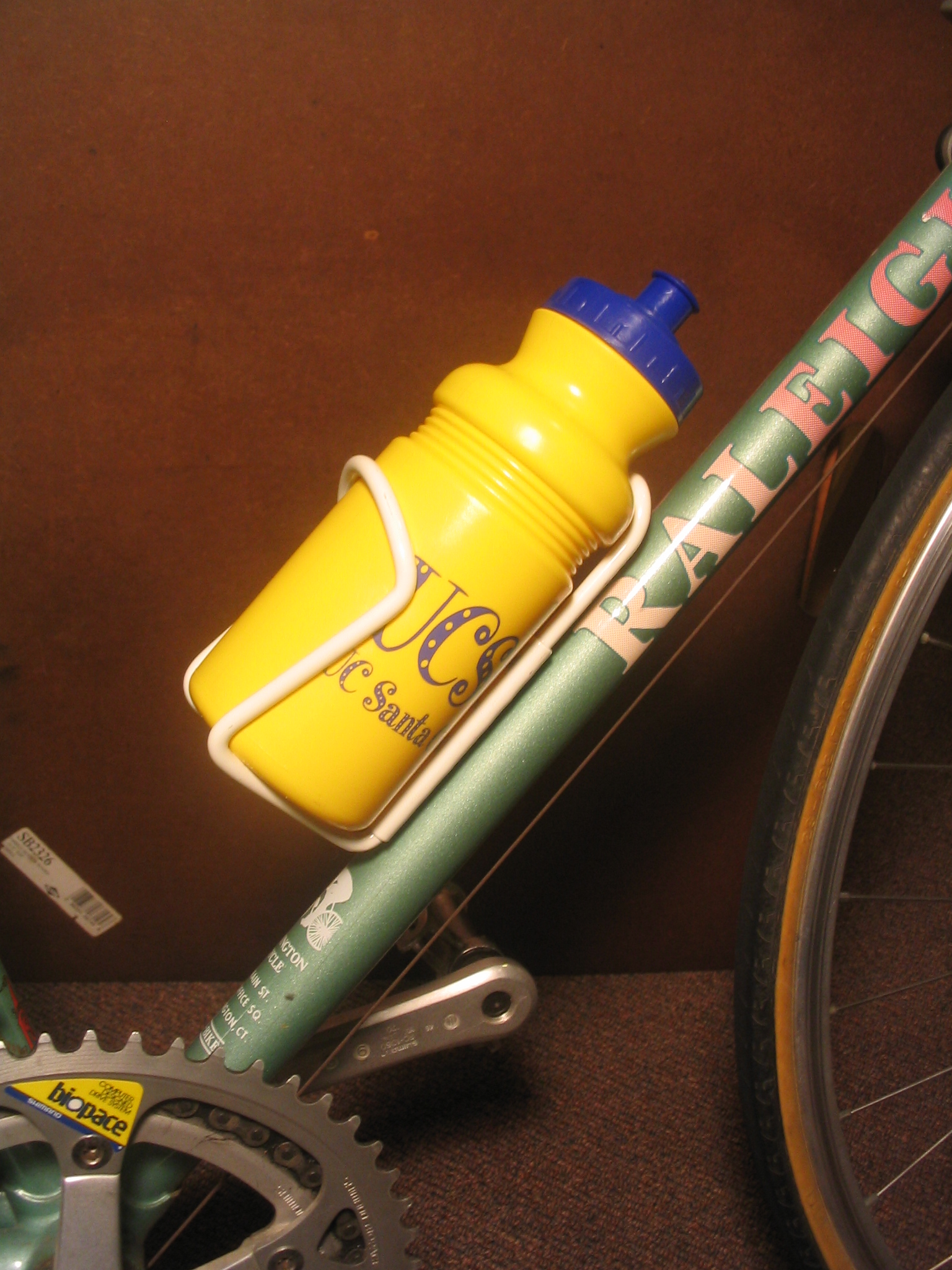 Bicycle bottle cage, shown holding bottle in context of crankset, downtube, and front wheel. Photo taken by User:Aezram on October 30, 2005.